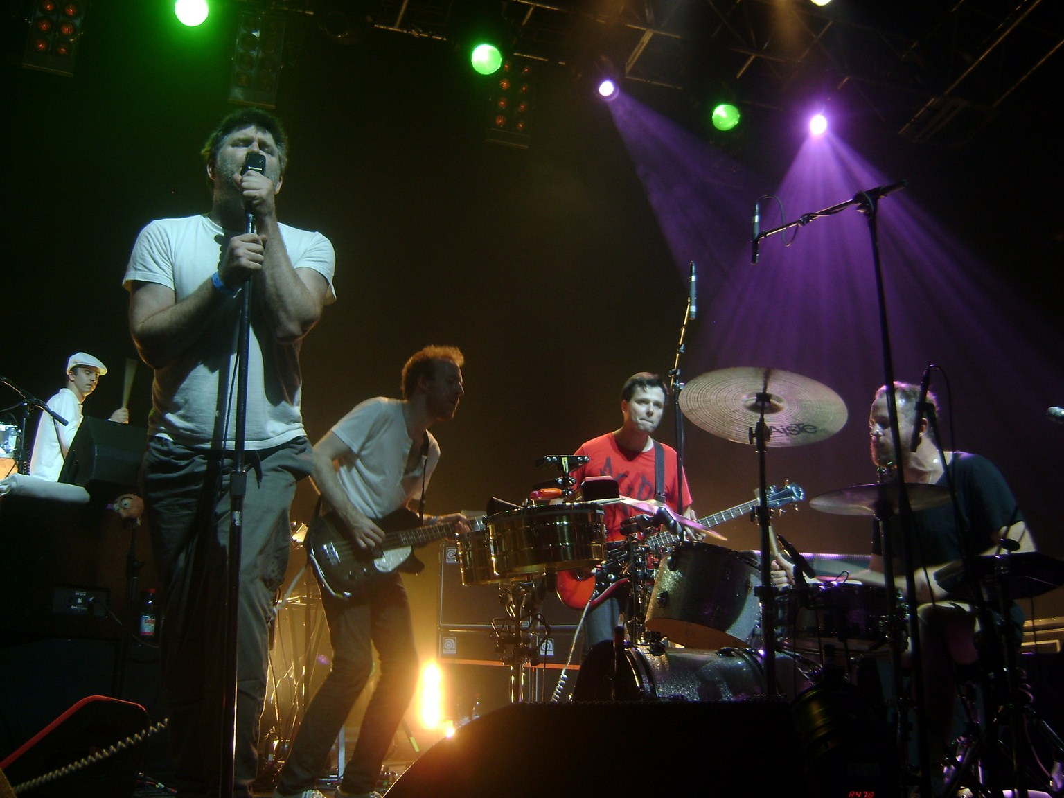 LCD Soundsystem @ Santiago, Chile 2011-02-27